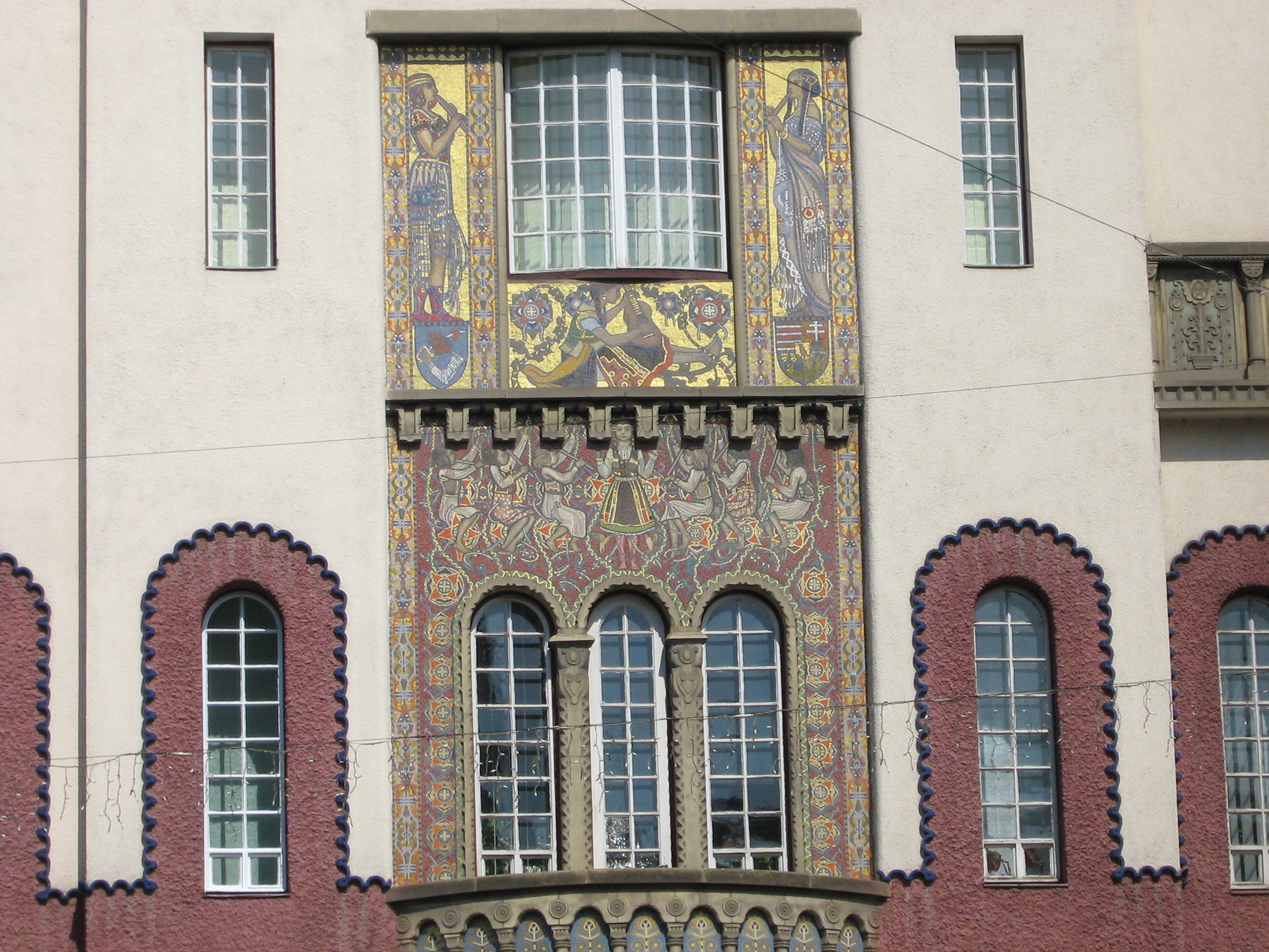 The southeastern side of the Culture Palace